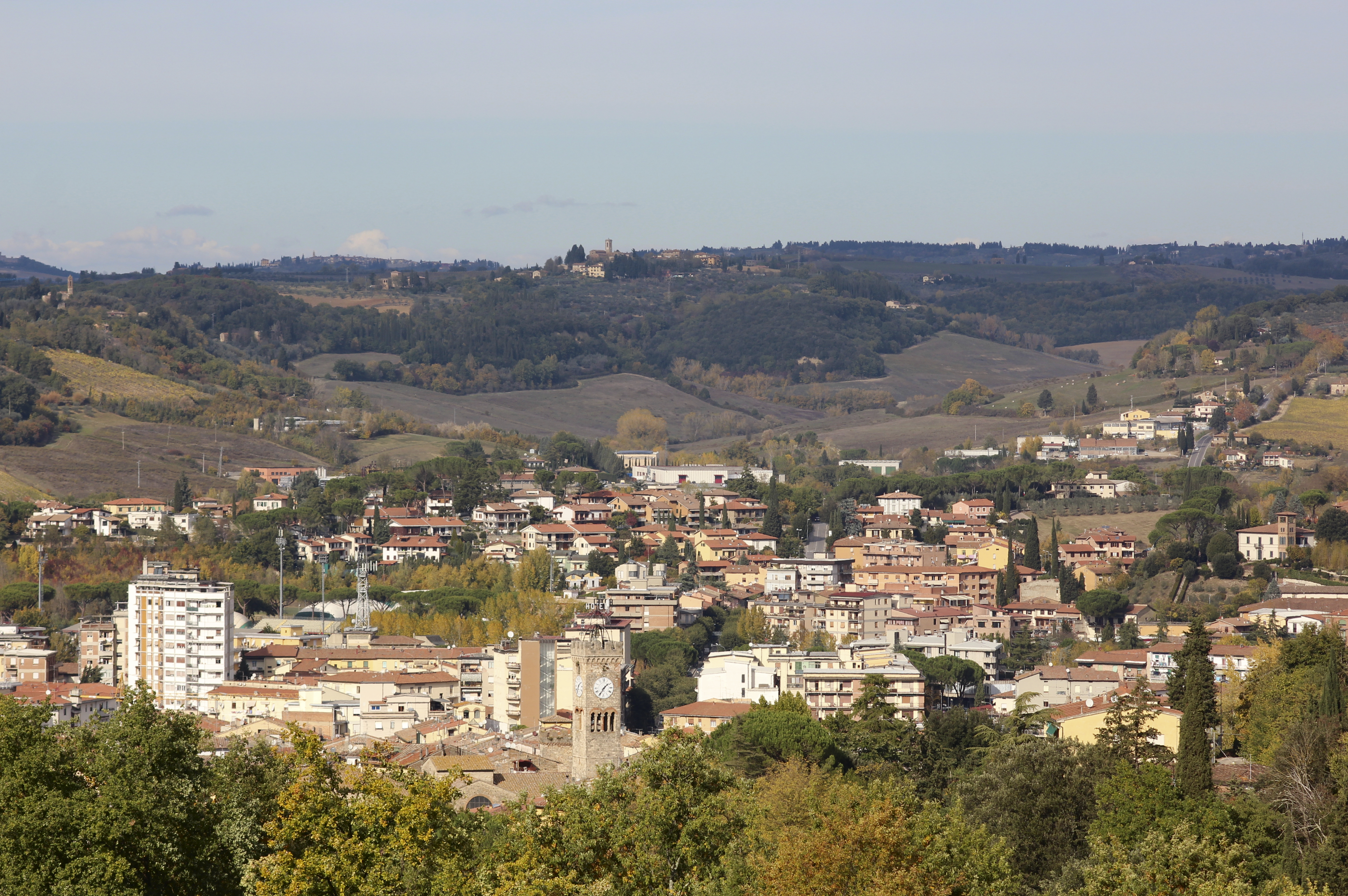 Panorama of Poggibonsi, Val d'Elsa, Province of Siena, Tuscany, Italy